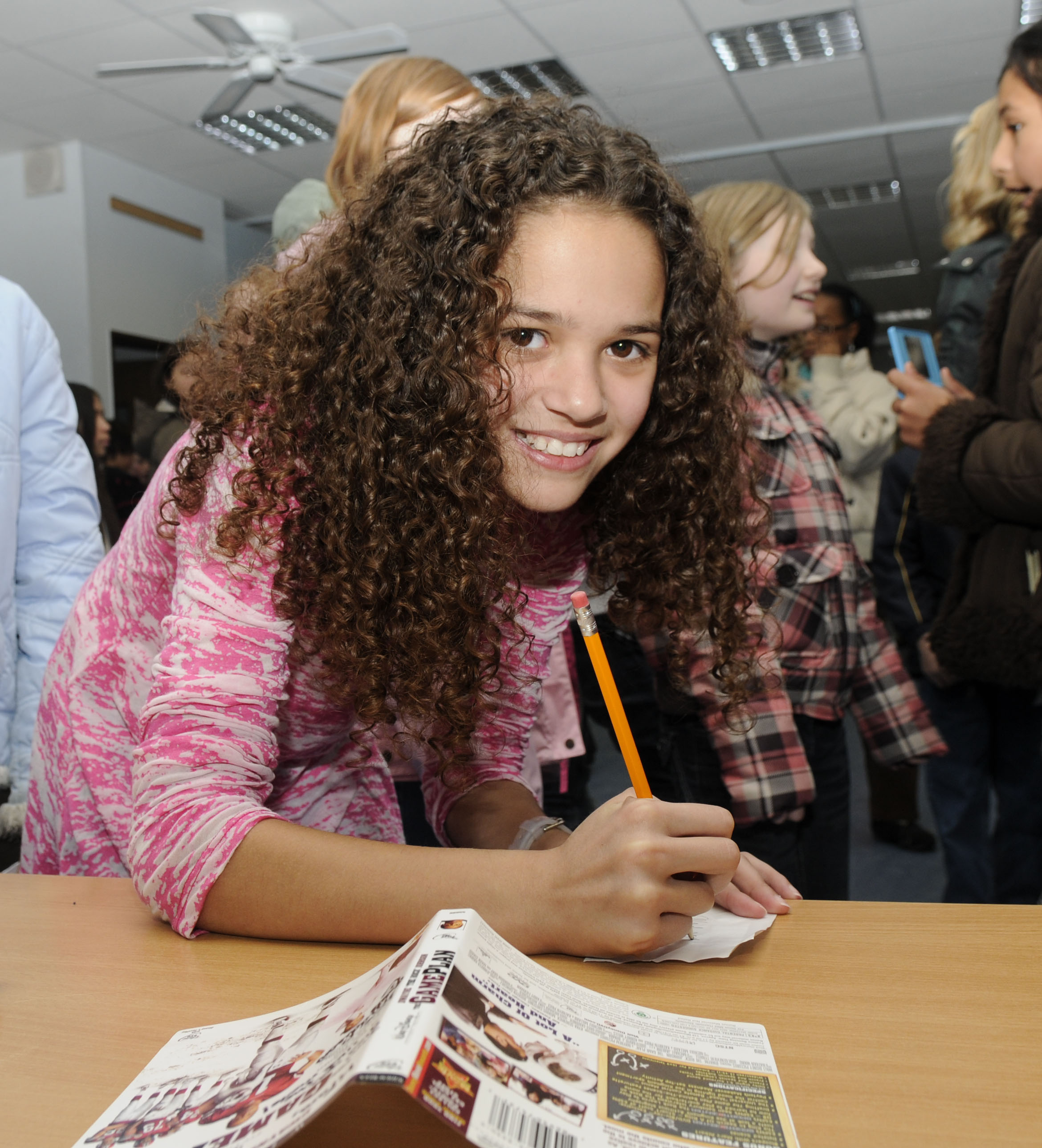 Ms. Madison Pettis, child actress, visits students at Ramstein Intermediate School on Ramstein Air Base, Germany, Dec. 5, 2010. Ms. Pettis' visit to the school, sponsored by the United Services Organization, included a question/answer session and autographs for four hundred 4th and 5th graders. (U.S. Air Force photo by Airman 1st Class Brittany Perry).